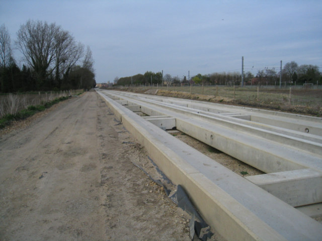 The Cambridgeshire Guided Busway under construction.